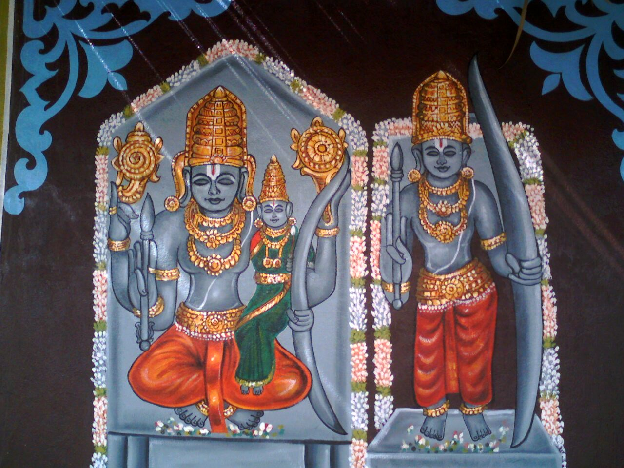 A 21th Century painting on Sri Yoganada Lakshmi Narasimha Swami temple at Bhadrachalm